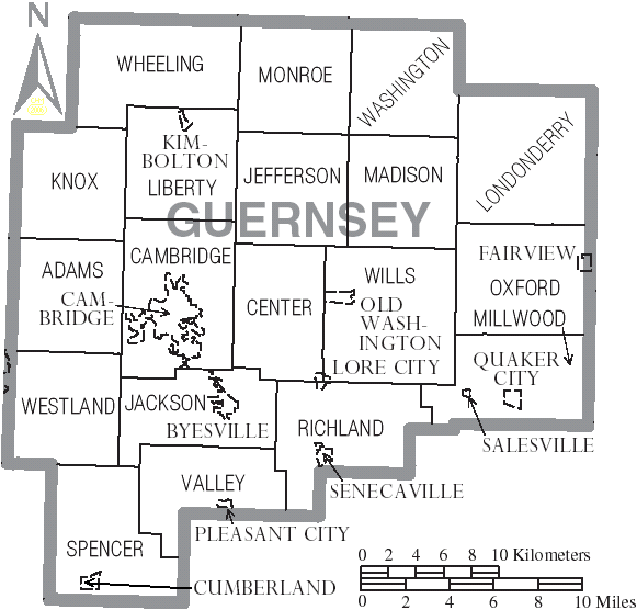 Map of Guernsey County, Ohio, United States with township and municipal boundaries